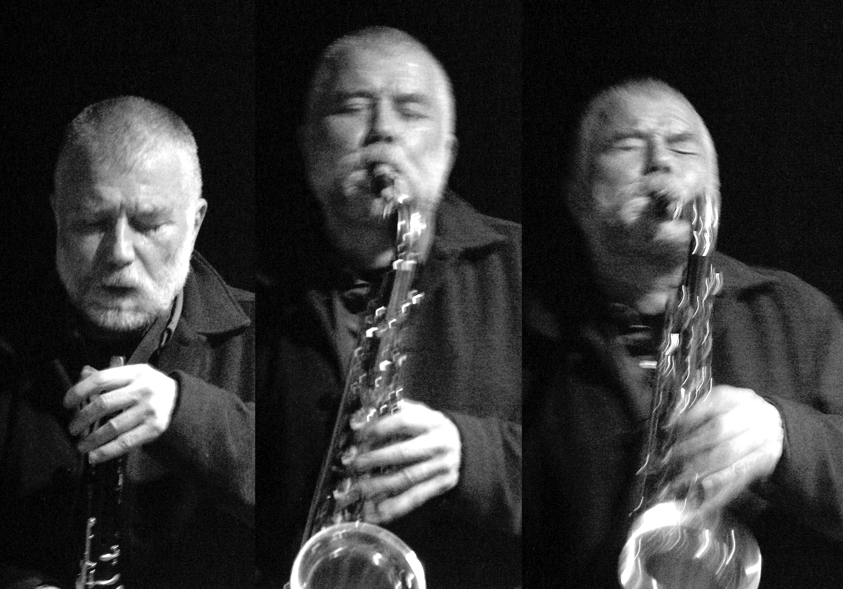 Peter Brötzmann